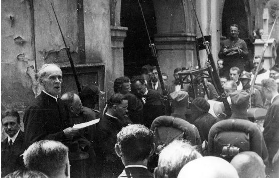 Ks. Bronisław Żongołłowicz